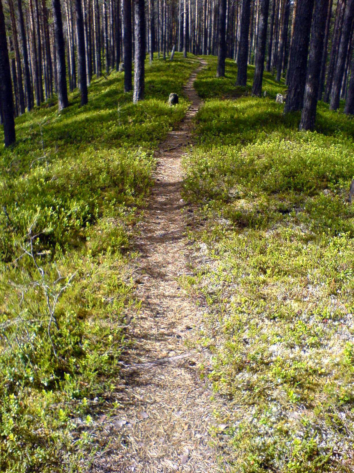 Path from Backe, Jämtland County, Sweden